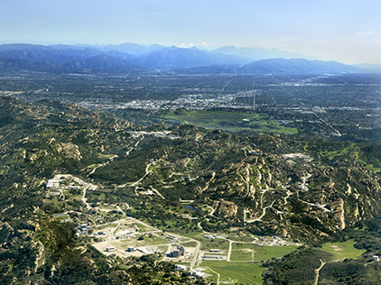 Aerial photograph view to the NE of the Santa Susana Field Laboratory in the Simi Hills sandstone formations. The San Fernando Valley and San Gabriel Mountains are seen beyond. Taken March 2005.